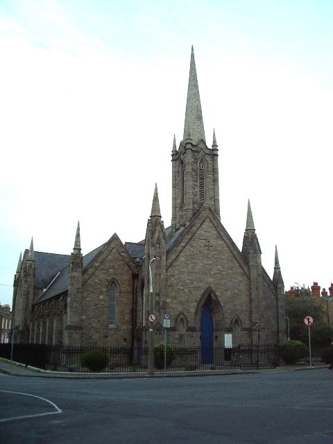 Church of Ireland,Holy Trinity,Rathmines, Dublin